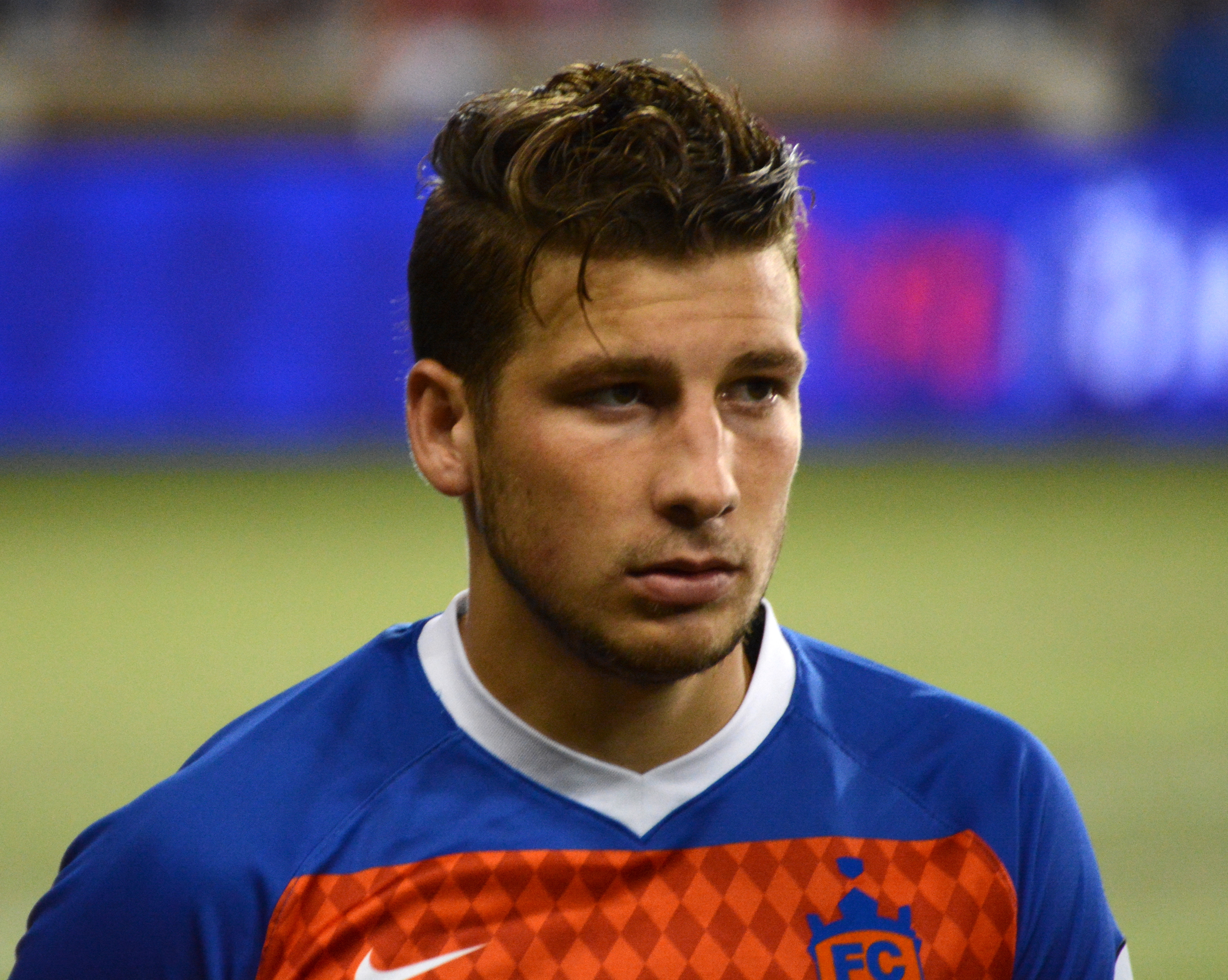 A portrait of Russell Cicerone, taken during a USL regular season match between FC Cincinnati and Indy Eleven at Nippert Stadium in Cincinnati, USA on September 29, 2018.